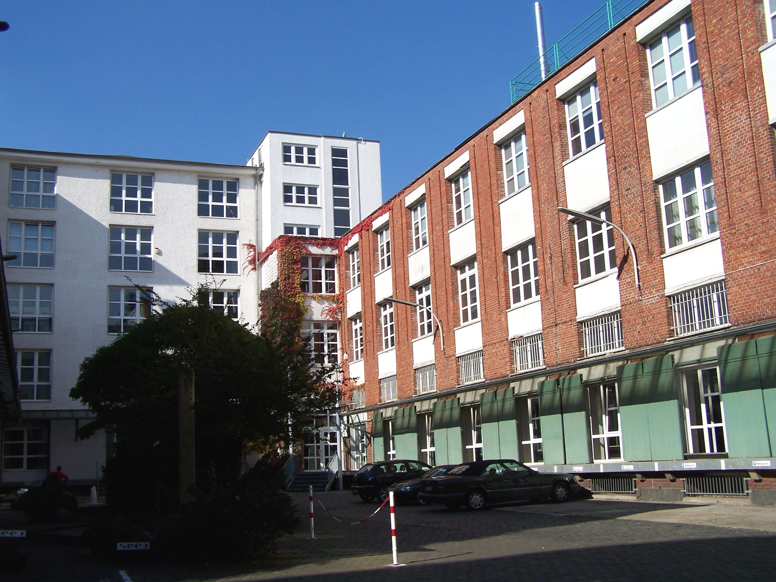 Courtyard of the headquarters of the former Schade&Füllgrabe grocer company in Frankfurt-Ostend